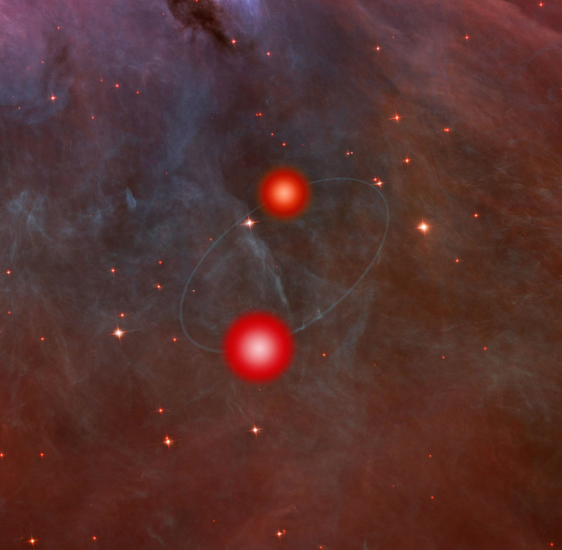 This is an artist's concept of a pair of eclipsing brown dwarfs. Brown dwarfs are mysterious celestial objects that fall somewhere between the smallest stars and the largest planets. They have always been viewed by astronomers as a critical link in the understanding of how both stars and planets form. One problem has been that brown dwarfs are hard to find and so have defied nearly all attempts to accurately assess their size. But now astronomers, have discovered a pair of young brown dwarfs in mutual orbit. This has enabled scientists to weigh and measure the diameters of brown dwarfs for the first time. The new observations confirm the theoretical prediction that brown dwarfs start out as star-sized objects, but shrink and cool and become increasingly planet sized as they age. Before now, the only brown dwarf whose mass had been directly measured was much older and dimmer.